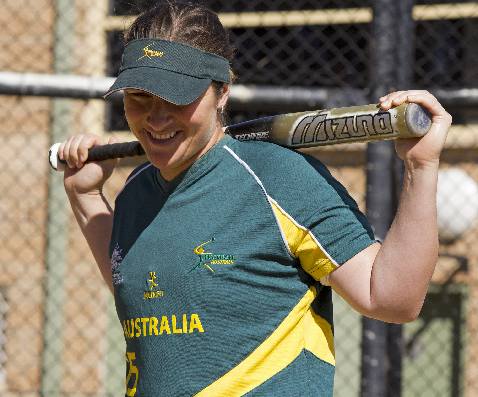 Australian softball player, Aimee Murch during a photoshoot.